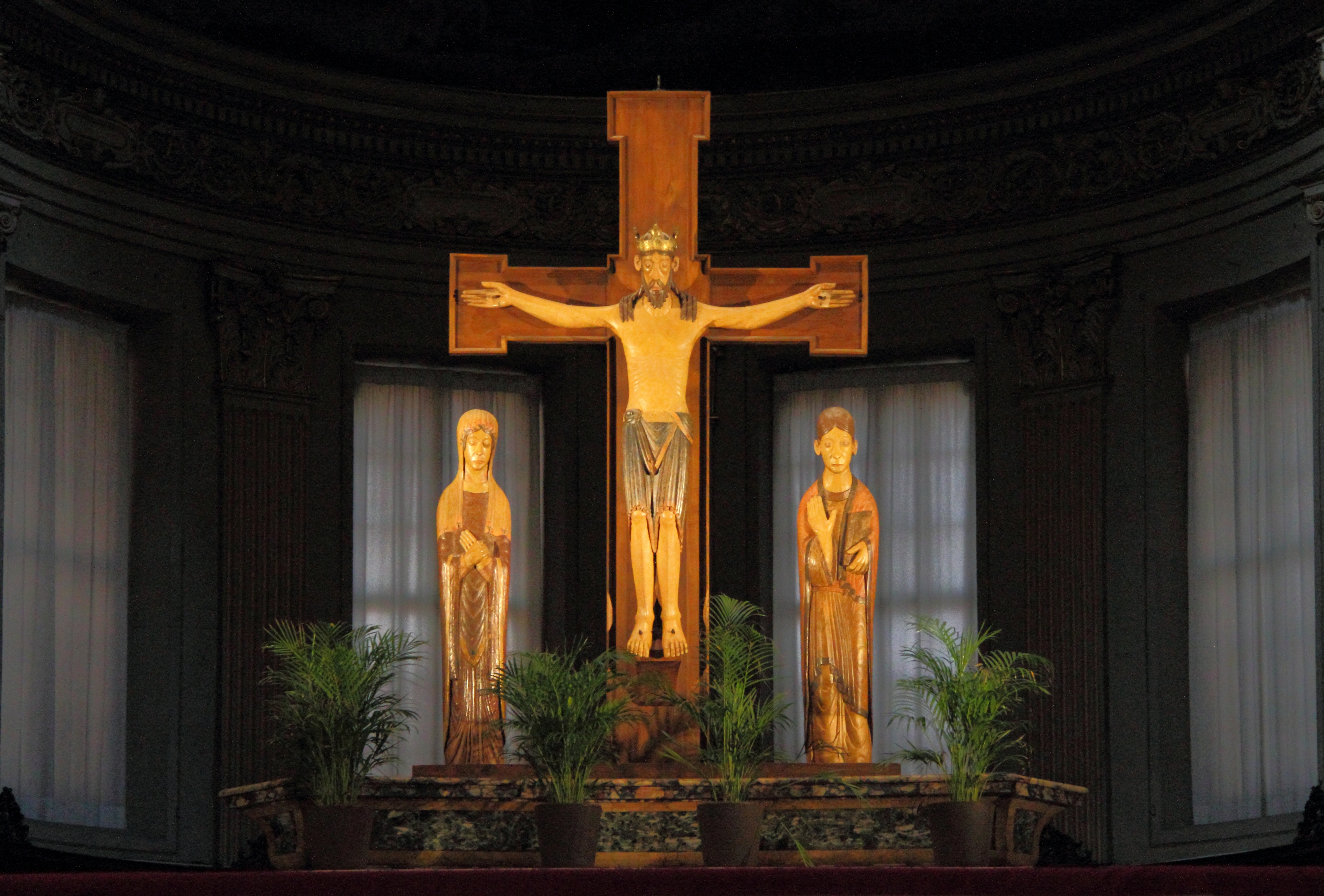 Bologna, Italy: Romanesque altar crucifix in the San Pietro Cathedral, made from cedar wood, 12th century, on the left a representation of Mary Magdalene, on the right John the Evangelist